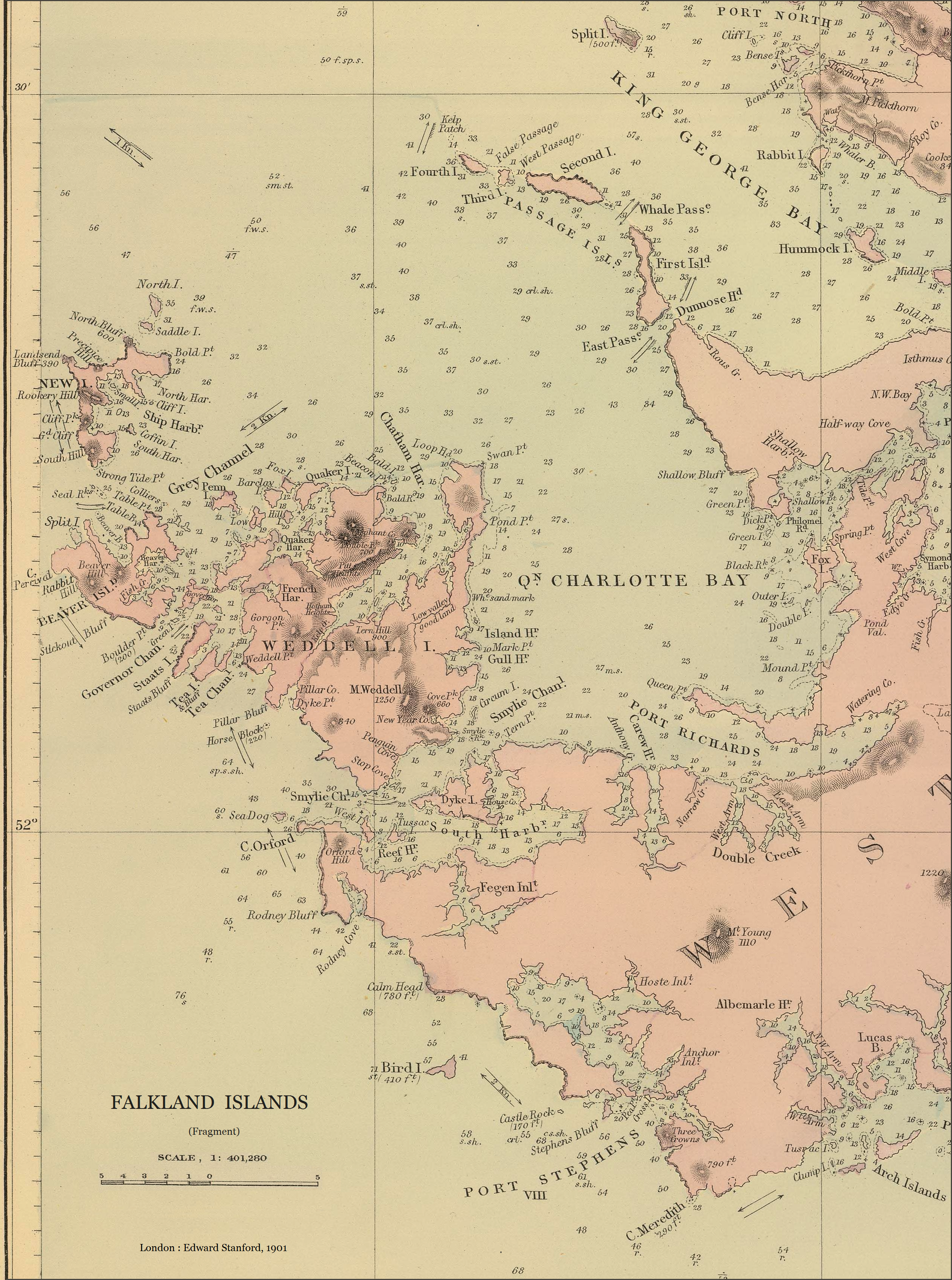 1901 map, or rather chart, of the Falkland Islands, South Atlantic Ocean (fragment). Scale 1:401280, 6⅓ English miles to 1 inch